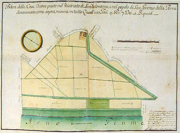 Case Nuove Farm in San Giovanni Valdarno owned by the Grand Duke of Tuscany